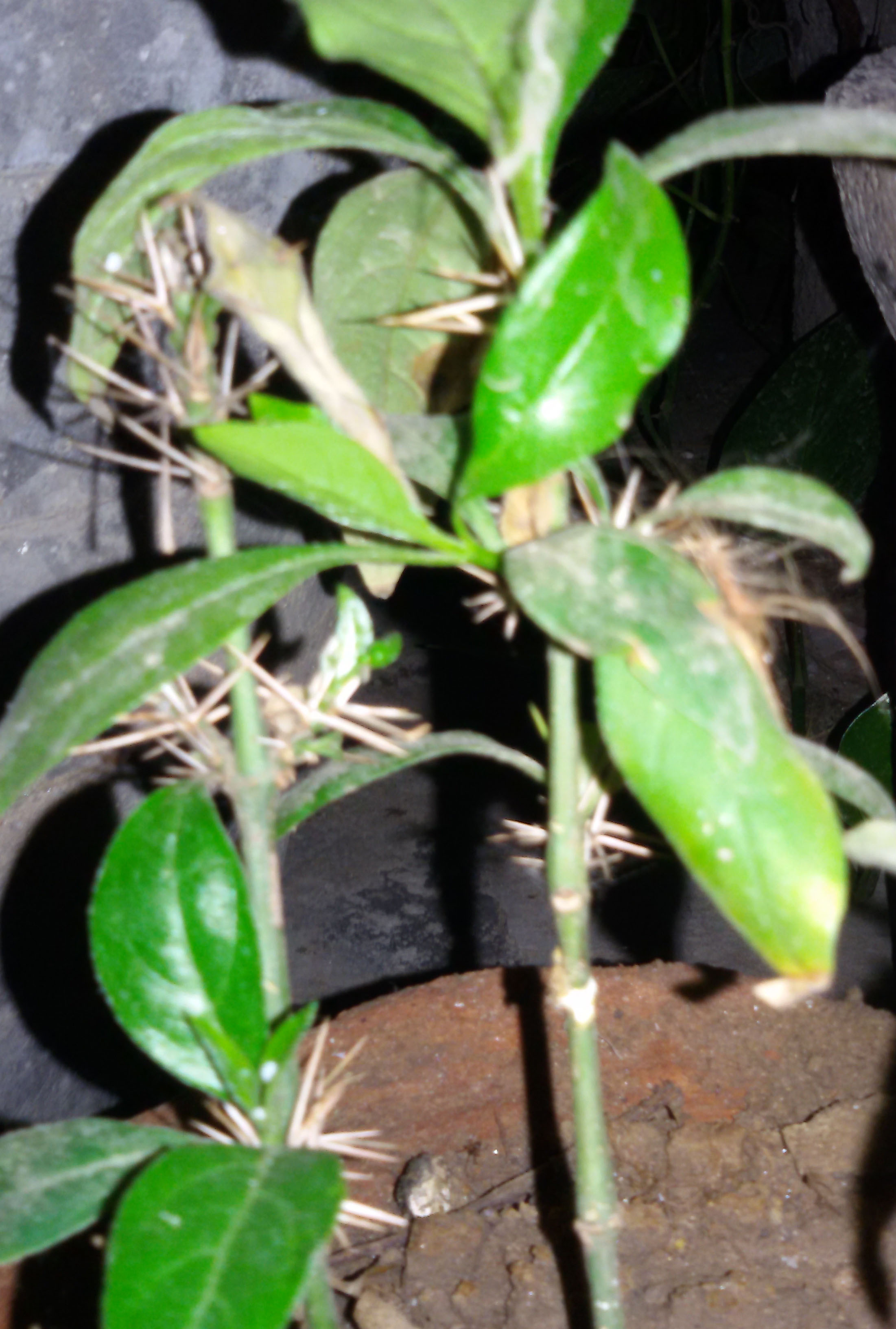 शिवकटाक्ष